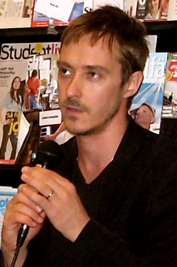 Israelian writer Etgar Keret (left) and Swedish writer and actor Jonas Karlsson at Gothenburg Book Fair 2009.